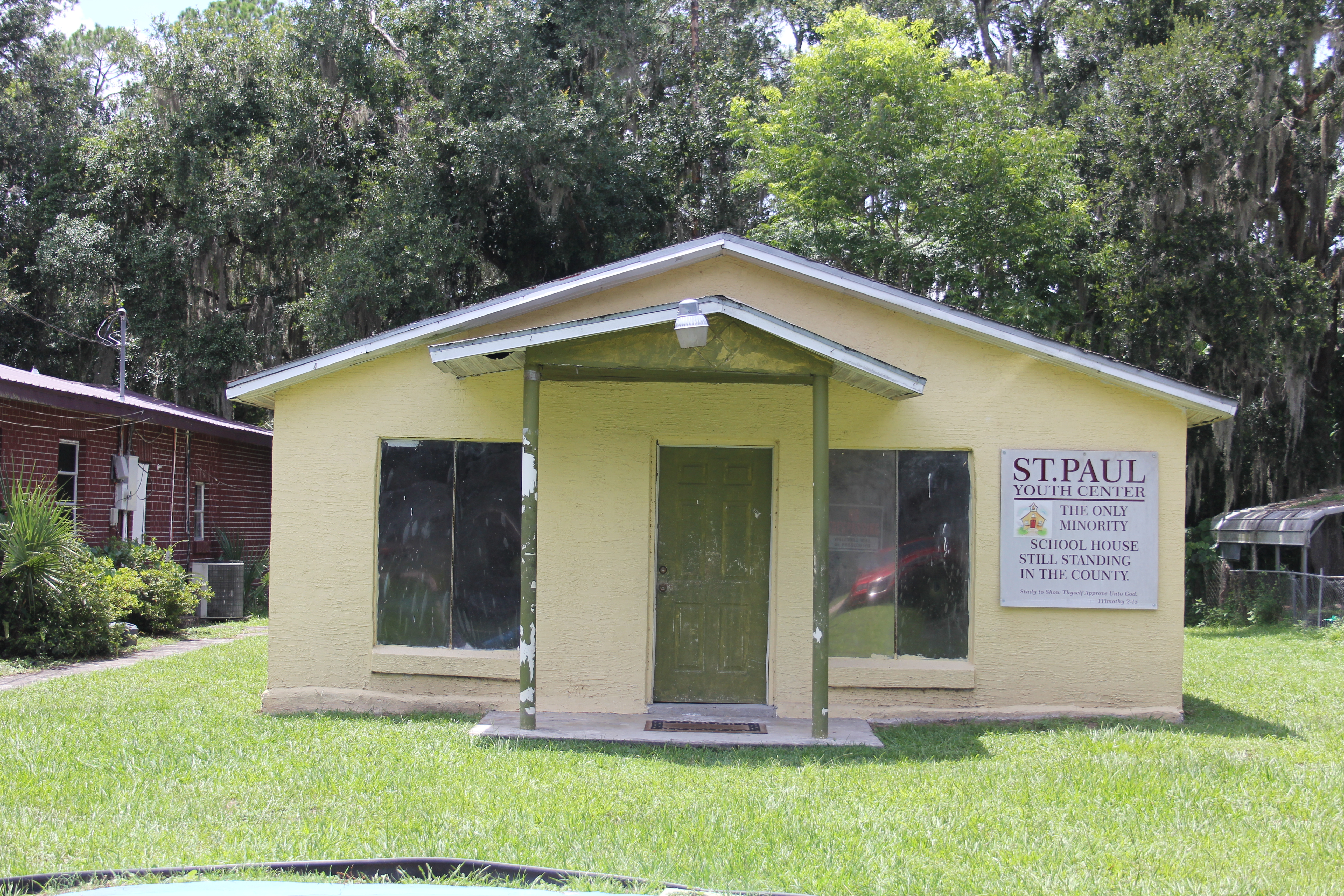 Full Front of the Espanola Schoolhouse - located in Bunnell, Florida.